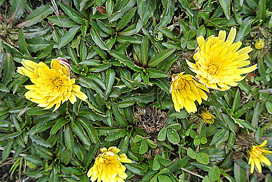 A stemless aster native mainly to the Andes of Columbia and Ecuador. Plants of this type tend to be called Chikku-chikku. Photo from Papallacta Pass, east of Quito.